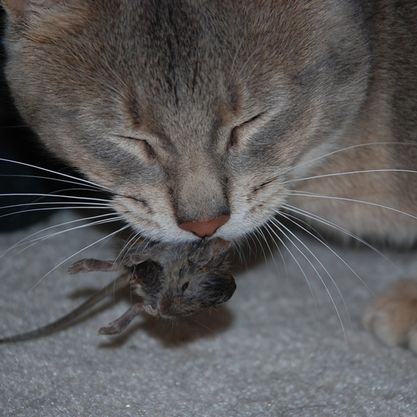 Cat eats mouse.